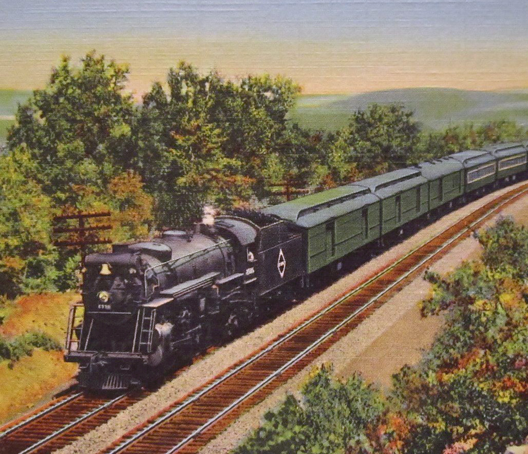 Postcard photo of the Erie Limited in Port Jervis, New York. The train traveled from New York to Chicago.